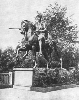 Equestrian statue of Prince Józef Poniatowski standing before the Paskiewicz Palace in Homel. Sponsored by Polish aristocracy and executed between 1826-32 by Bertel Thorvaldsen.[1] It was deliberately and completely destroyed by the Germans in 1944 (blew up on December 16).[1] The statue was reconstructed between 1948-51 by Paul Lauritz Rasmussen (financed by Danish people).[1] (see: Planned destruction of Warsaw).